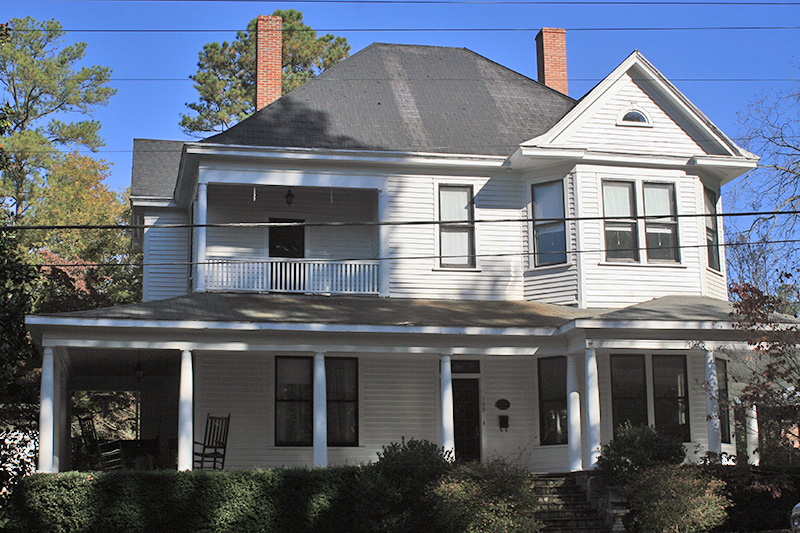 Ballentine Spence House located at 109 East Spring Street, Fuquay-Varina, North Carolina.